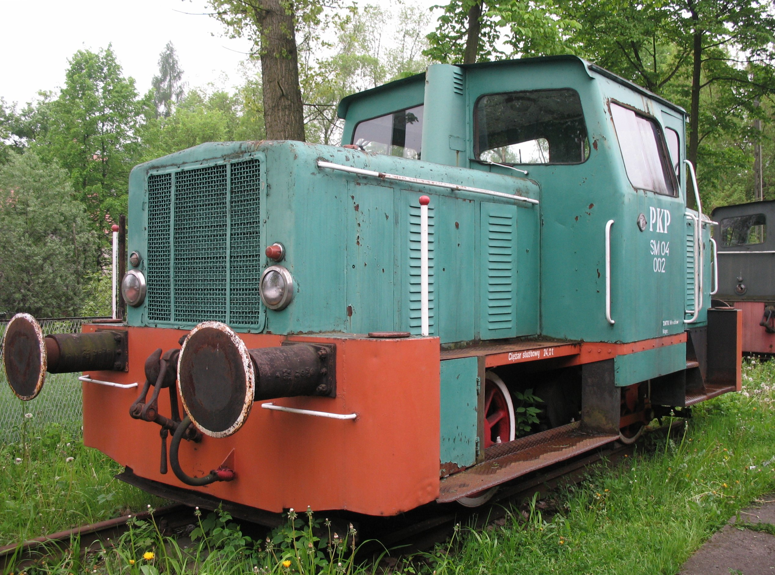 Polish diesel shunter locomotive SM04-002 at Chabówka Rolling-Stock Heritage Park, Poland